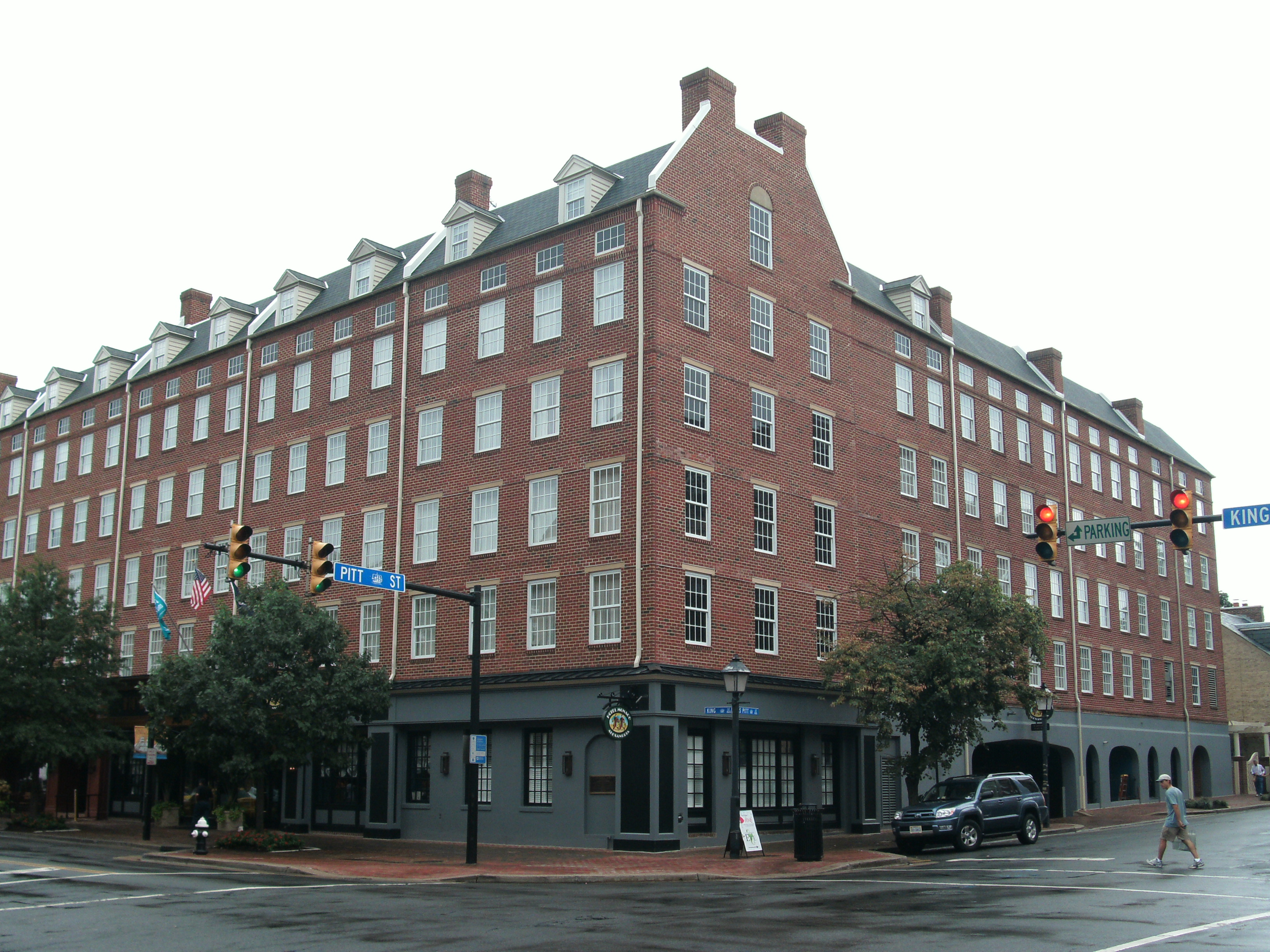 Alexandria, VA, September 2009 GEDSC DIGITAL CAMERA